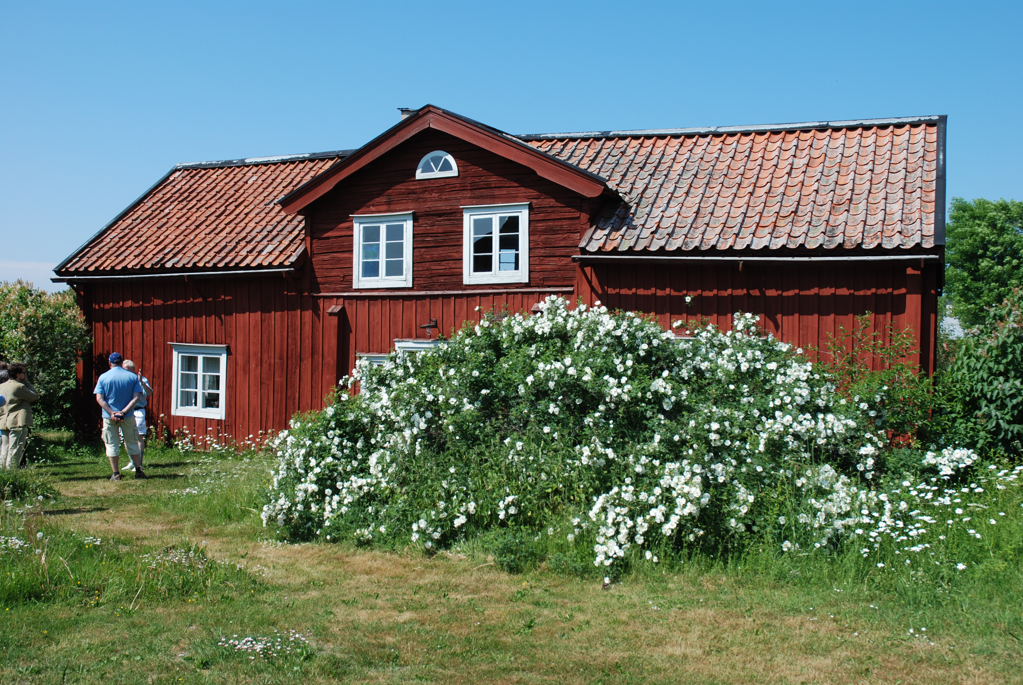 Morastugan (Anders Ersgården), Bergshamra, Uppland, Sweden